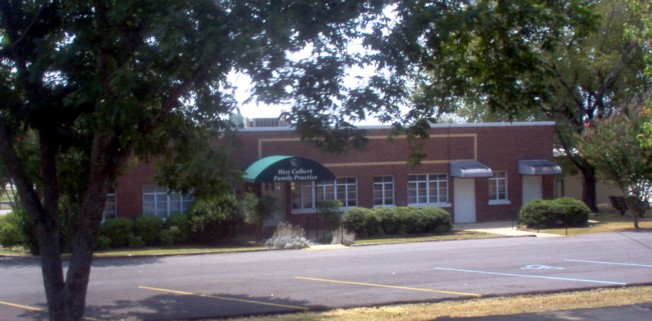 West Colbert Family Practice in Cherokee, Alabama